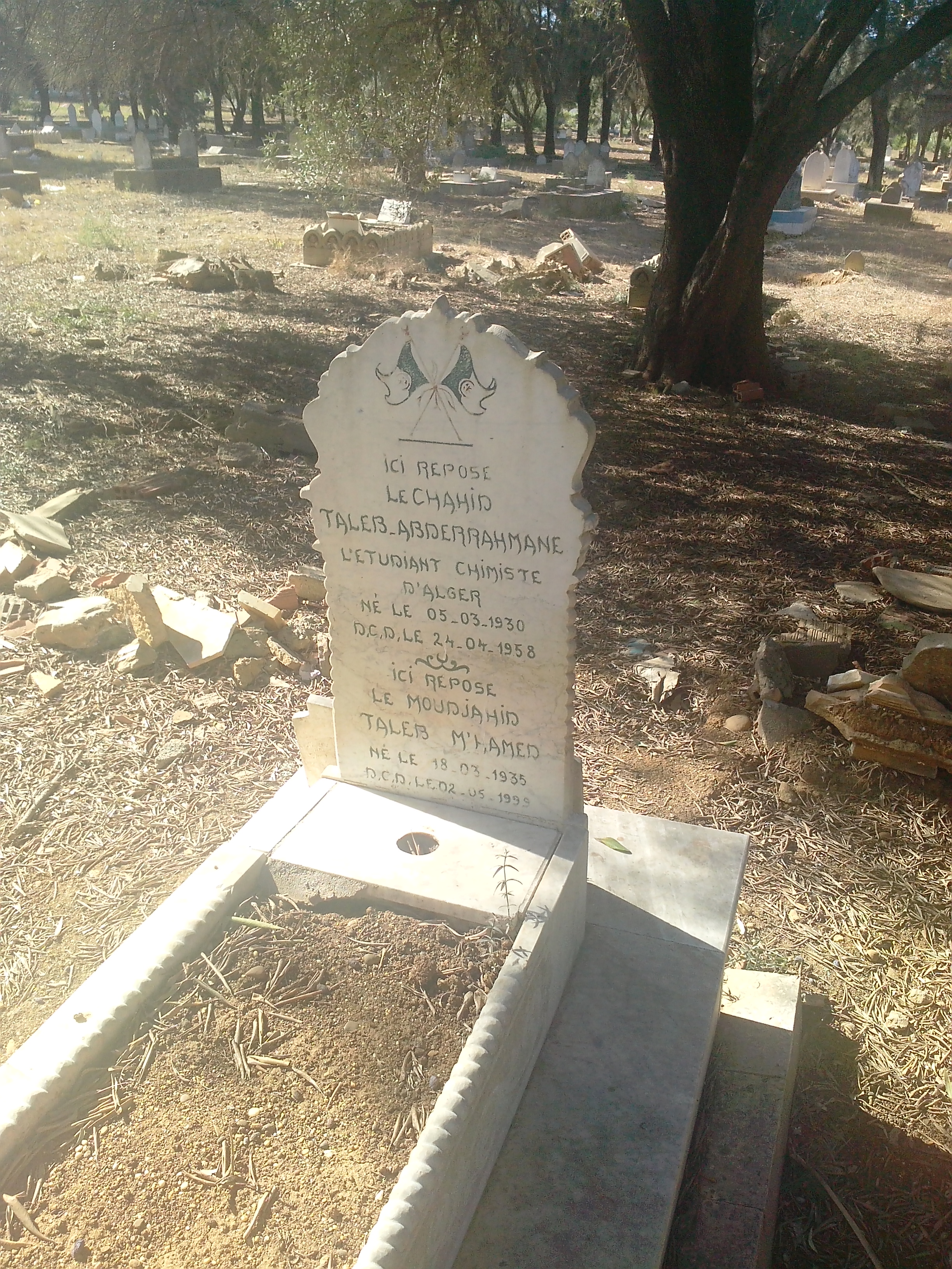 tombe